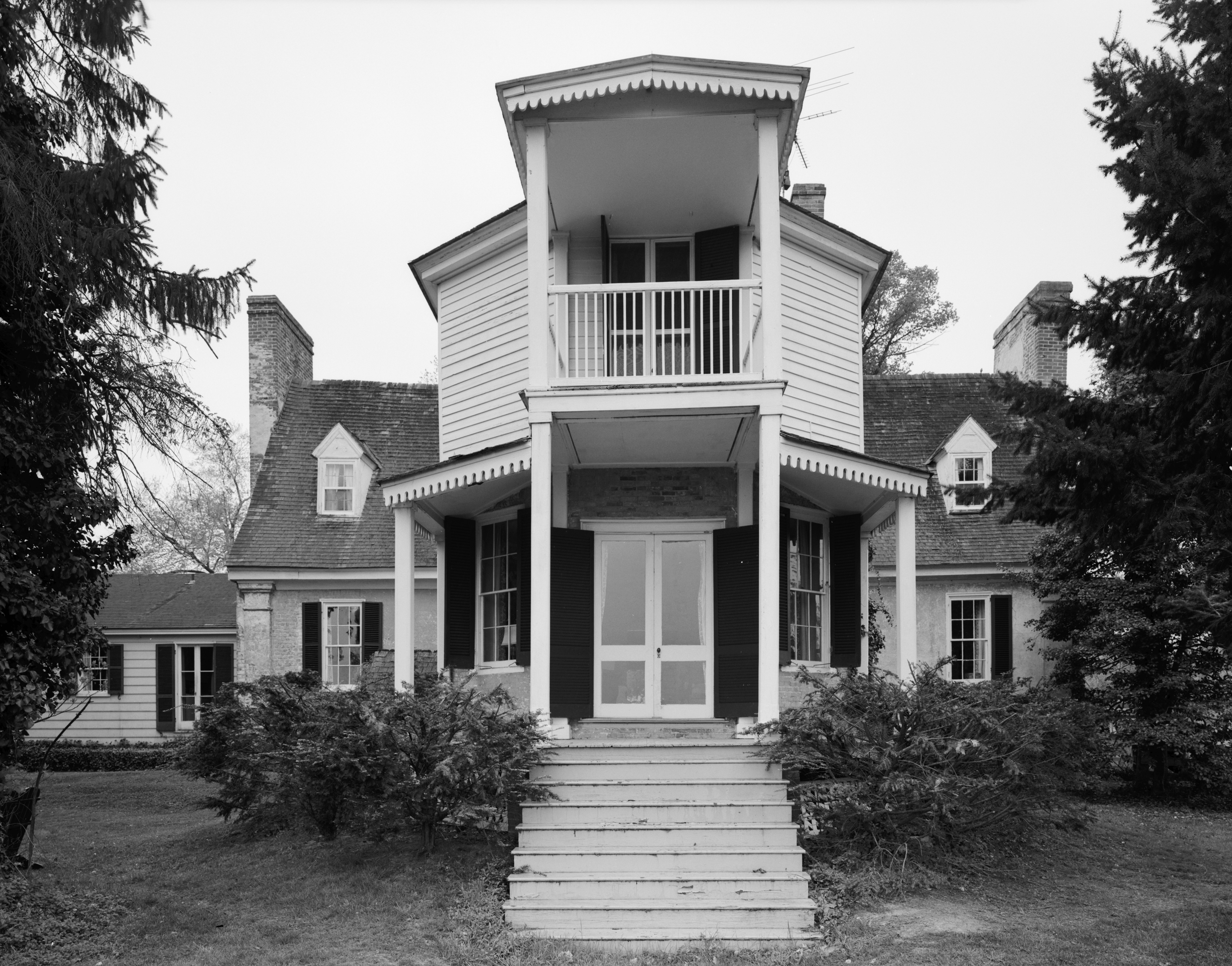 EAST (FRONT) ELEVATION, VIEW SHOWING ENTRANCE PORCH ADDITION - Cedar Park, Cumberstone Road on West River, Cumberstone, Anne Arundel County, MD Part of the Historic American Buildings Survey